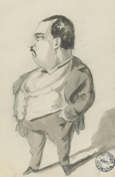 The French playwright William Bertrand Busnach (1832-1907) portrayed by Lhéritier (1809-1885)